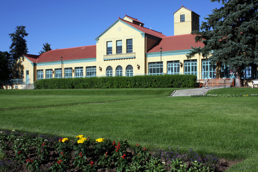 City Park, Denver, Colorado, USA, boathouse